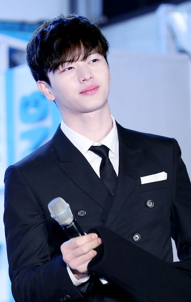 Yook Sung-jae at the Global V Live Top 10 in January 2017